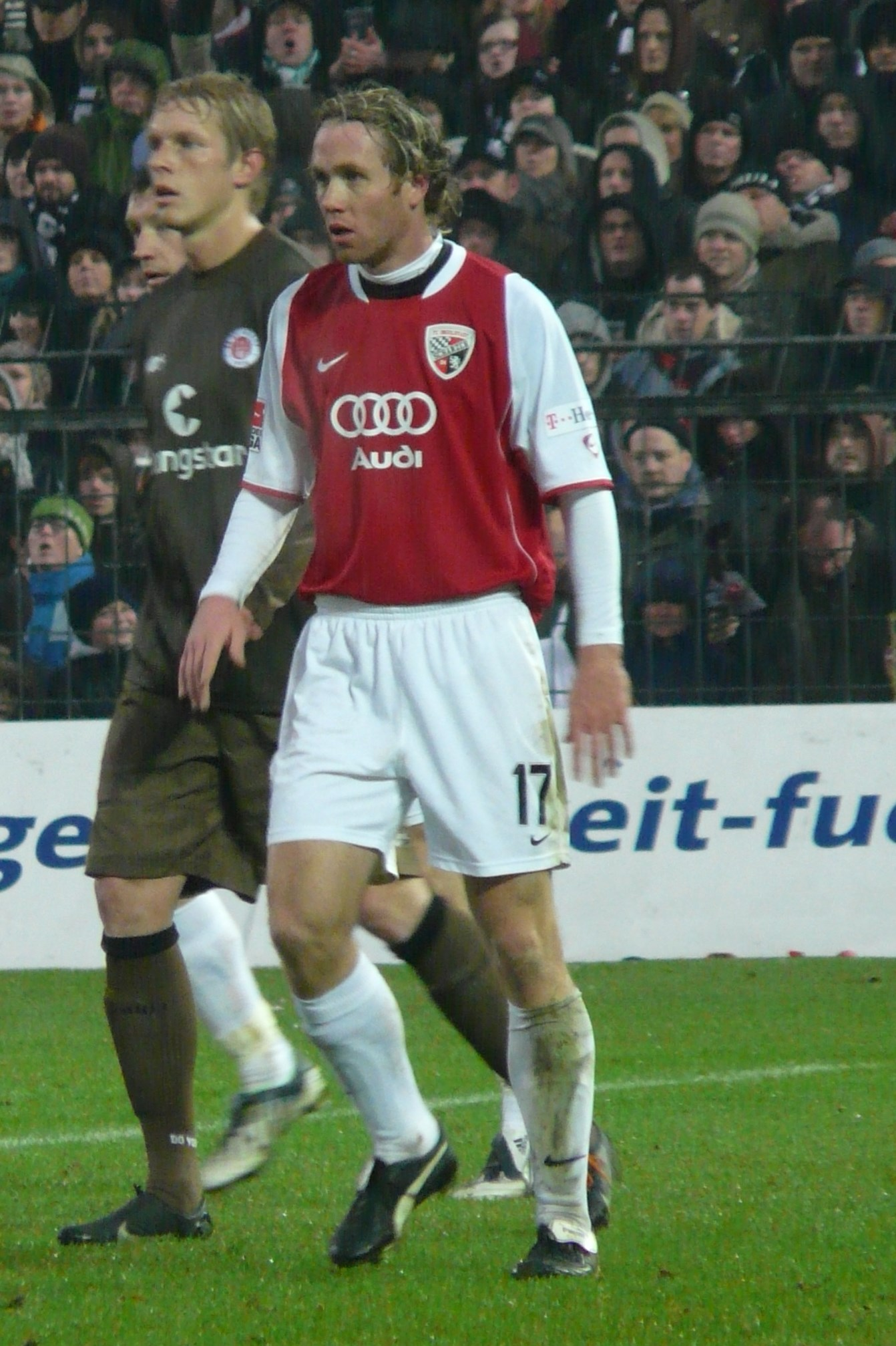 Mario Neunaber as Player from FC Ingolstadt